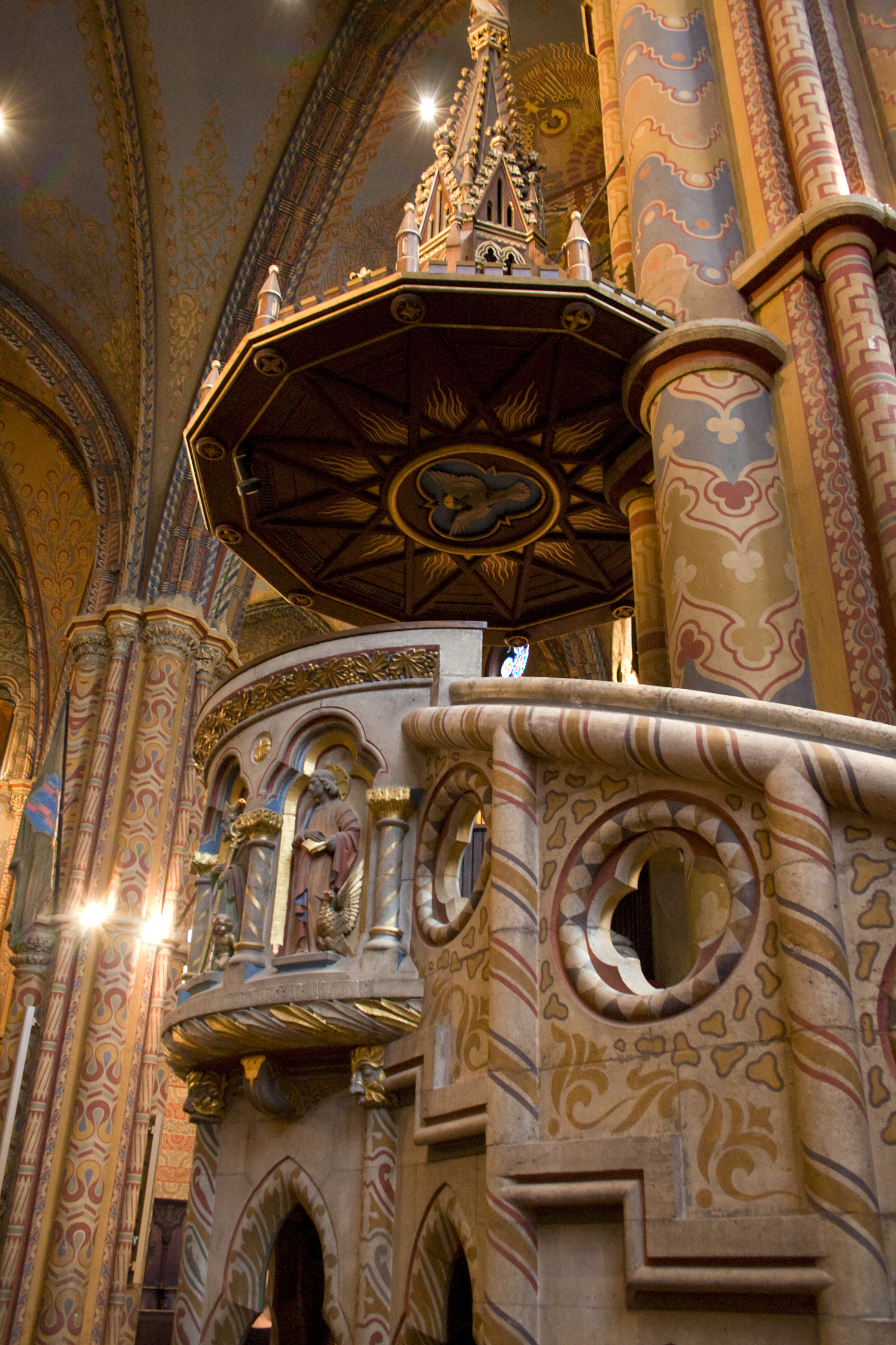 Pulpit in the interior of Matthias Church, Budapest